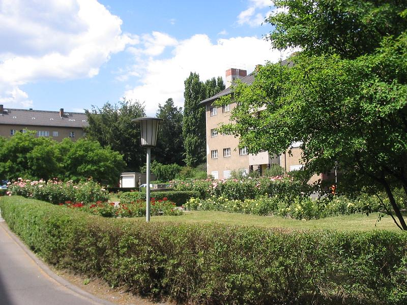 Listed Bärensiedlung (german for „Bear residential development“) at the Oberlandstraße (street) in Berlin-Tempelhof, built in 1929/31.